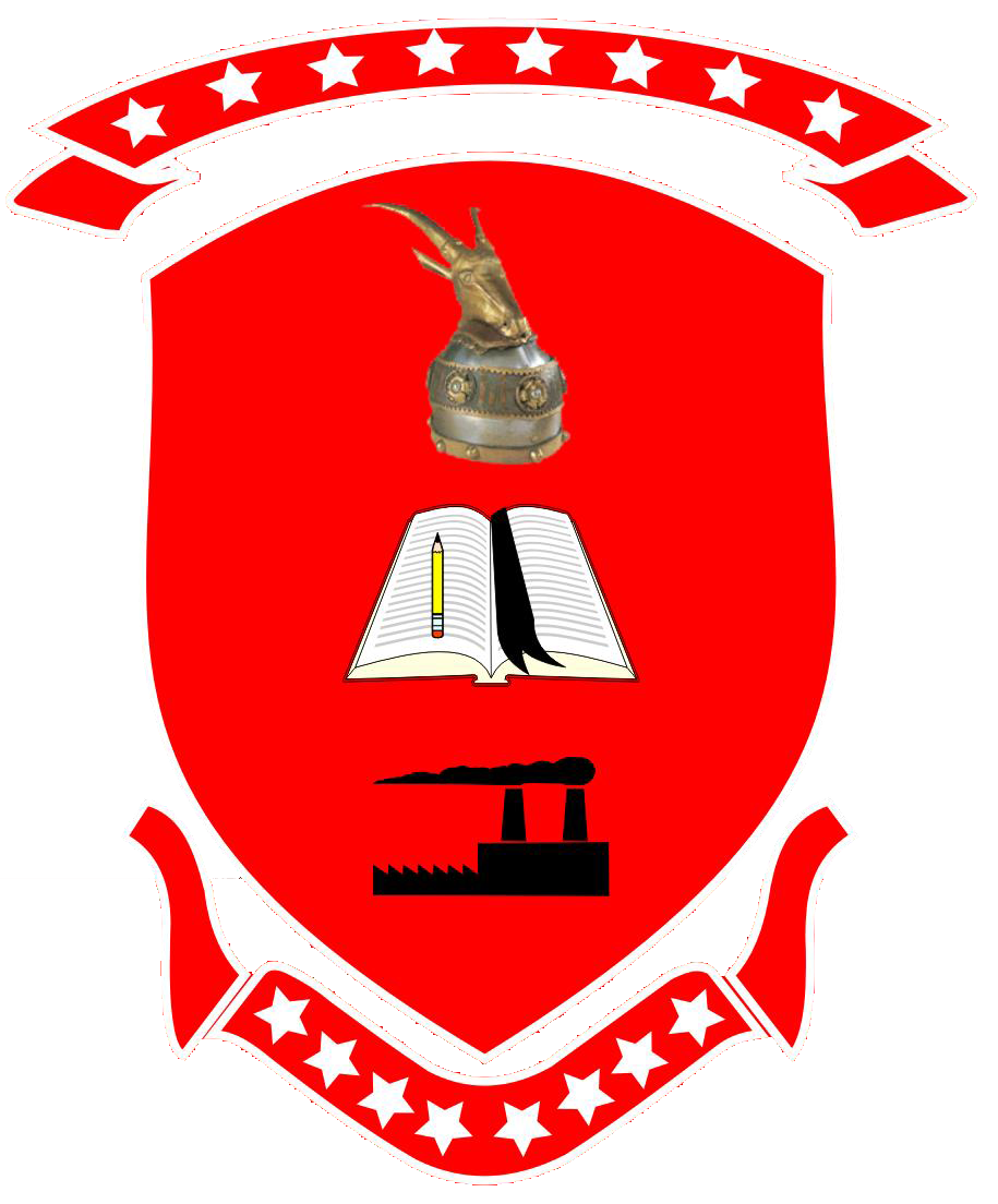 Coat of arms of Oslomej Municipality, Macedonia.